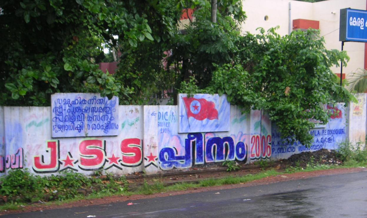 Photo: Soman